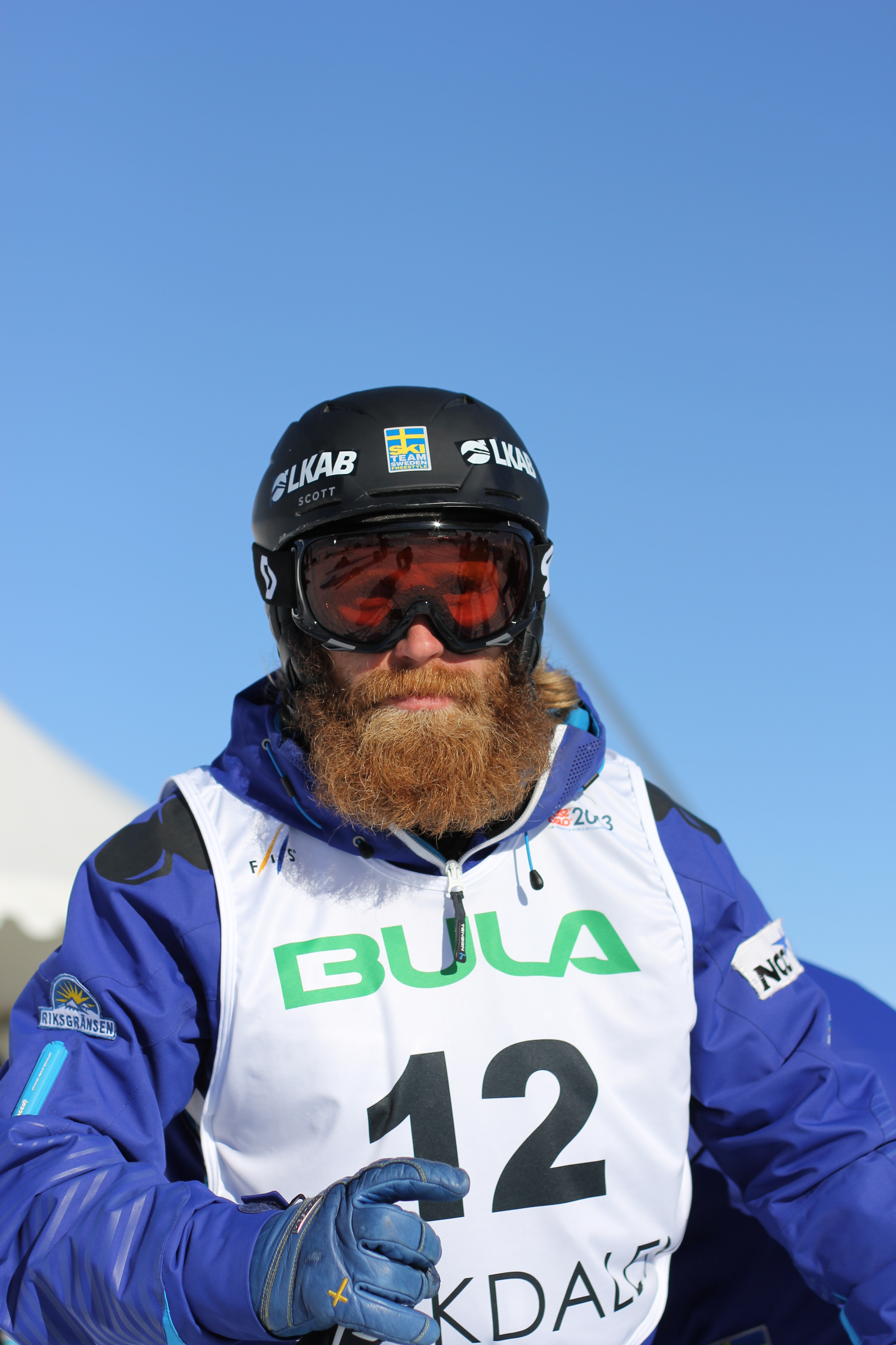 Moguls athlete Per Spett during the FIS Freestyle World Championships in Voss, Norway.